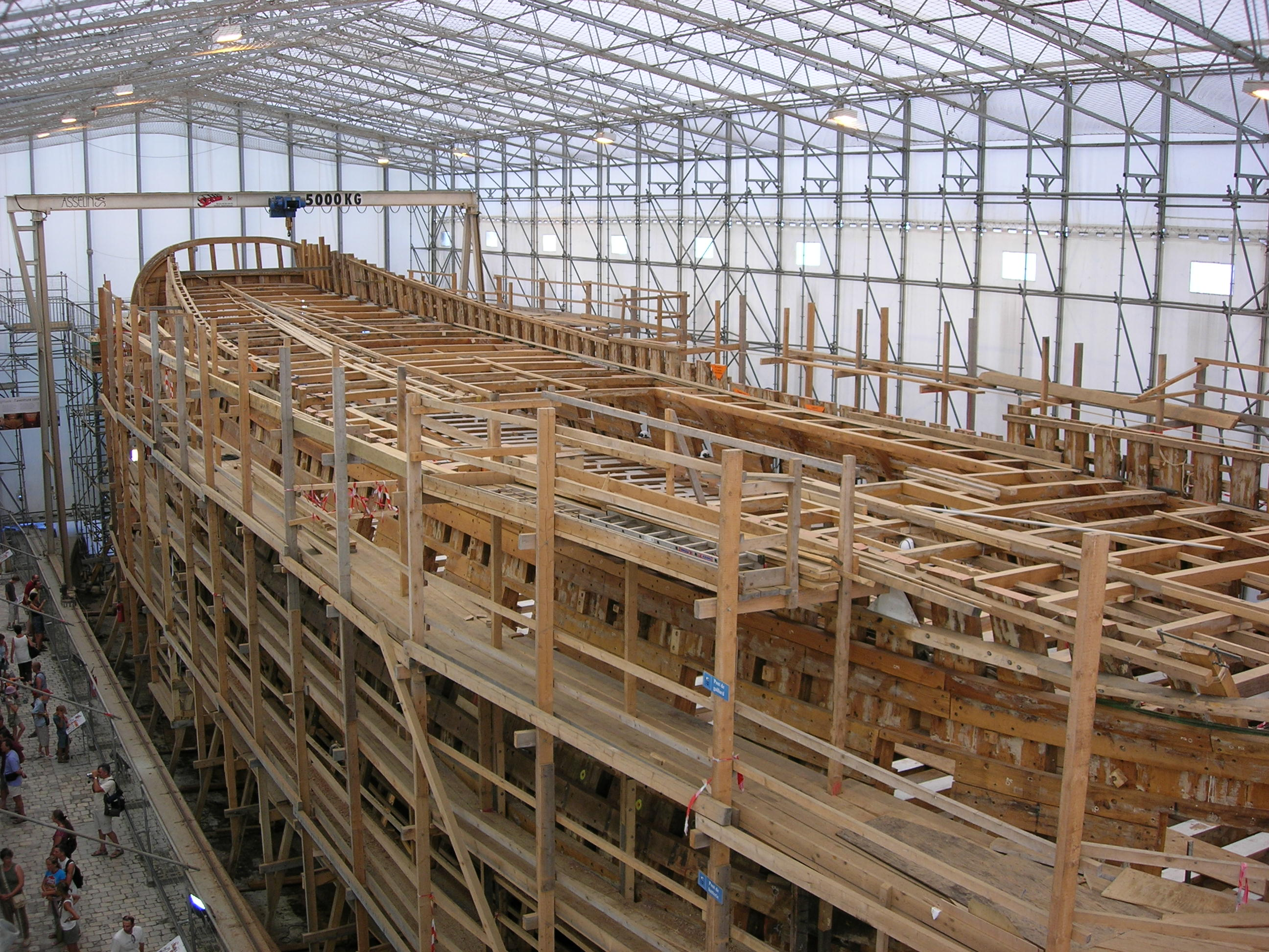 Reconstruction of the Hermione in Rochefort, France